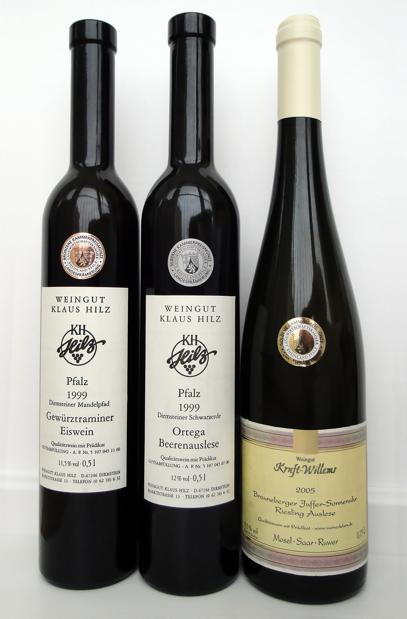 Three German wine bottles with "Kammerpreismünze" from Rheinland-Pfalz (Rhineland-Palatinate), bronze, silver and gold from left to right.